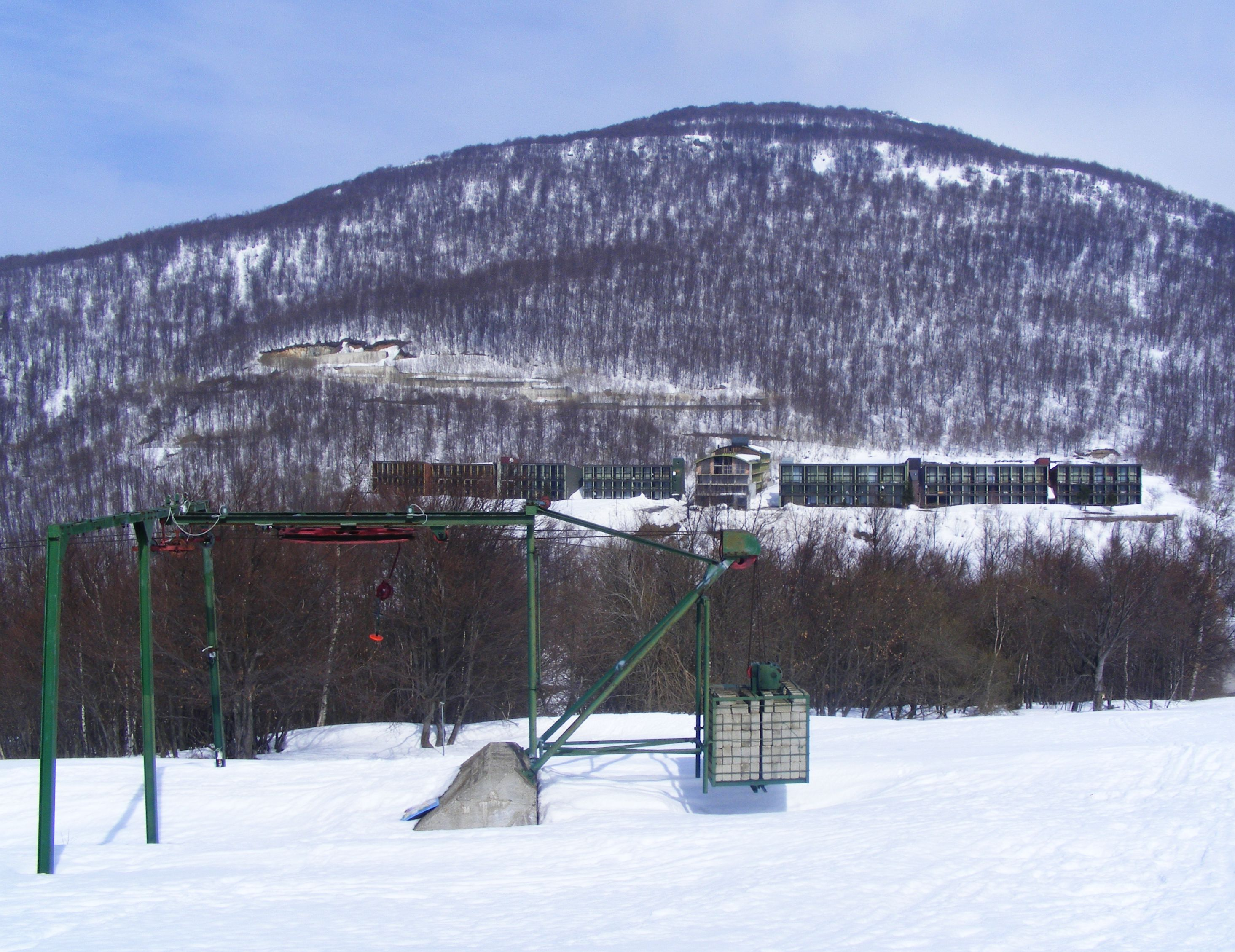 Garessio 2000 (CN, Italy): old residences